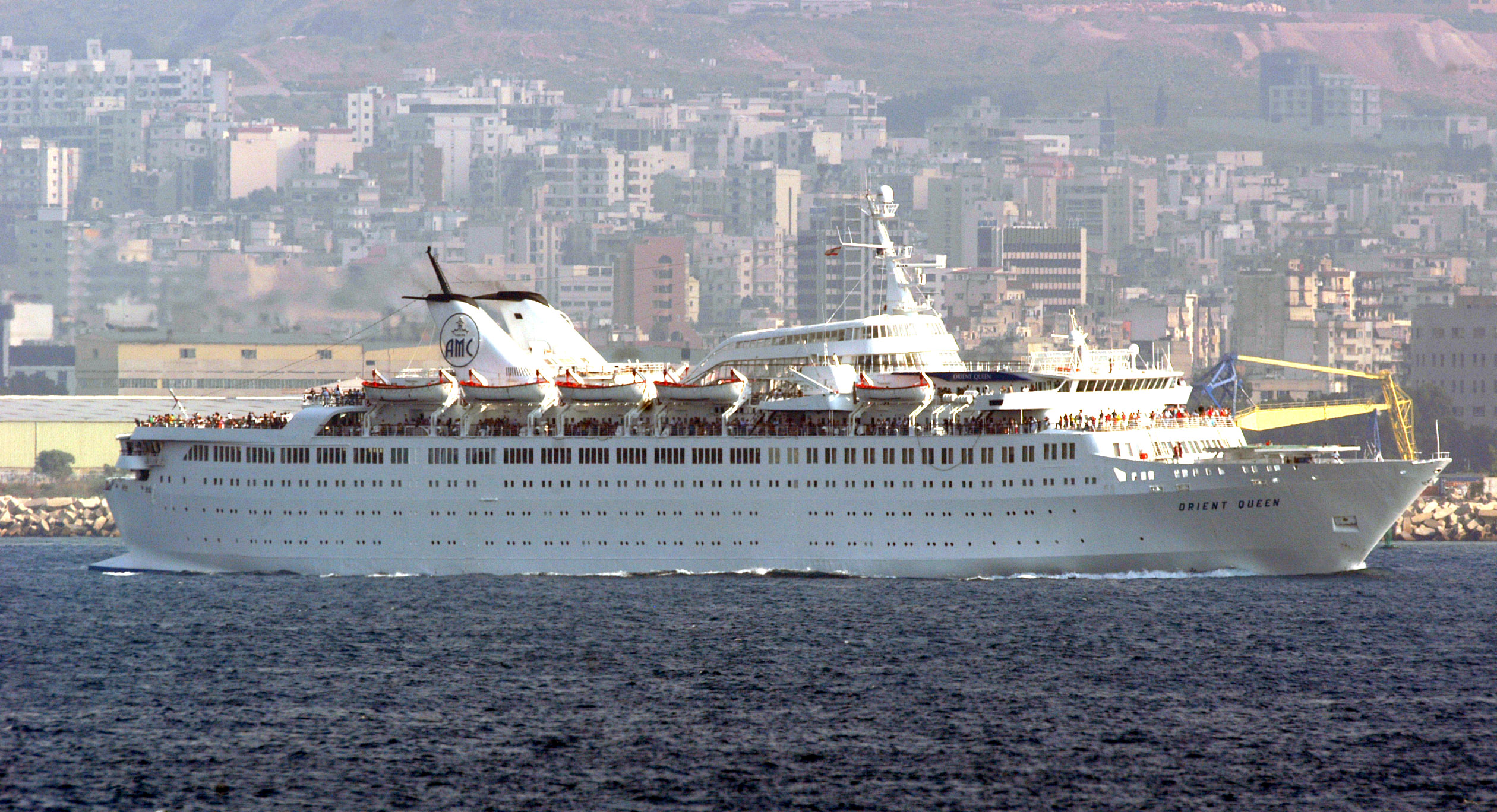 Mediterranean Sea (July 22, 2006) – The cruise ship Orient Queen departs Beirut, Lebanon. The ship, under contract with the U.S. government, is part of the larger U.S. military mission to assist U.S. citizens in their departure from Lebanon.